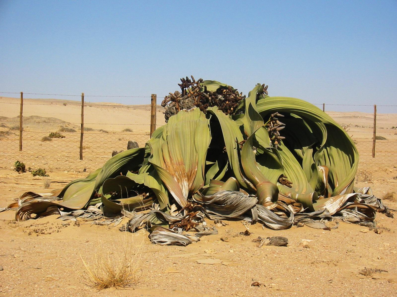 Welwitschia mirabilis, Namibia. Female, about man's height, approx. age: 1 500 years